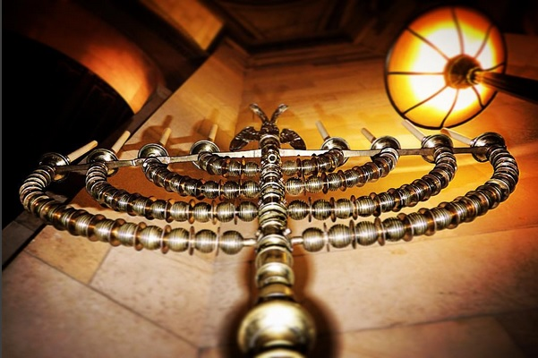 The historic Katowitz Menorah on display at City Hall is over 150 years old. Designed by a 19th Century Italian artist, it resided in Poland's Great Katowitz Synagogue until the onset of World War II when the synagogue was destroyed during the Nazi invasion. The menorah is the last remaining objet d'art rescued from the destruction. It was hidden underground before being gifted to Los Angeles Chabad.